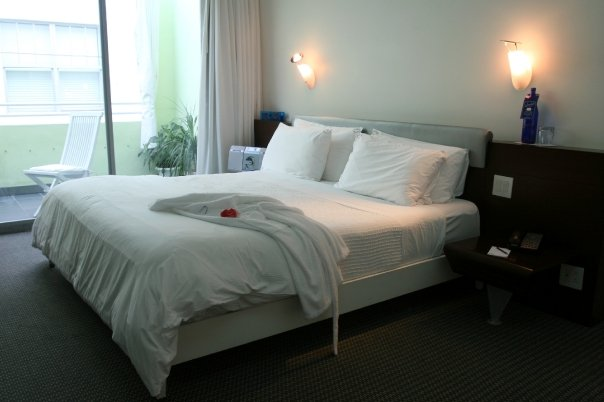 Hotel bedroom, bed and wall sconces, The New Clinton Hotel And Spa Miami Beach